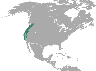 Trowbridge's Shrew (Sorex trowbridgii) range